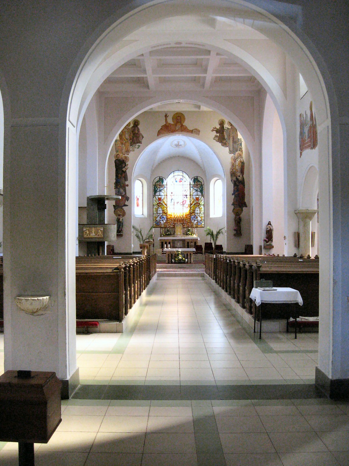 The interior of St. Stephen protomartyr church in Šurany, Slovakia.